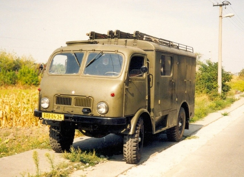 Tatra 805 - Military fire-fighting truck, 75HP, 80km/h Photo: Ondrej Ertl (1992), Bratislava